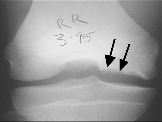 Osteochondritis dissecans. Tunnel or notch views show the cystic changes more clearly.